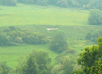 White Horse, Preshute Hill, Marlborough Nowhere near as well known as other white horse hill figures in Wiltshire and elsewhere, this one dates from 1809 according to a local source.